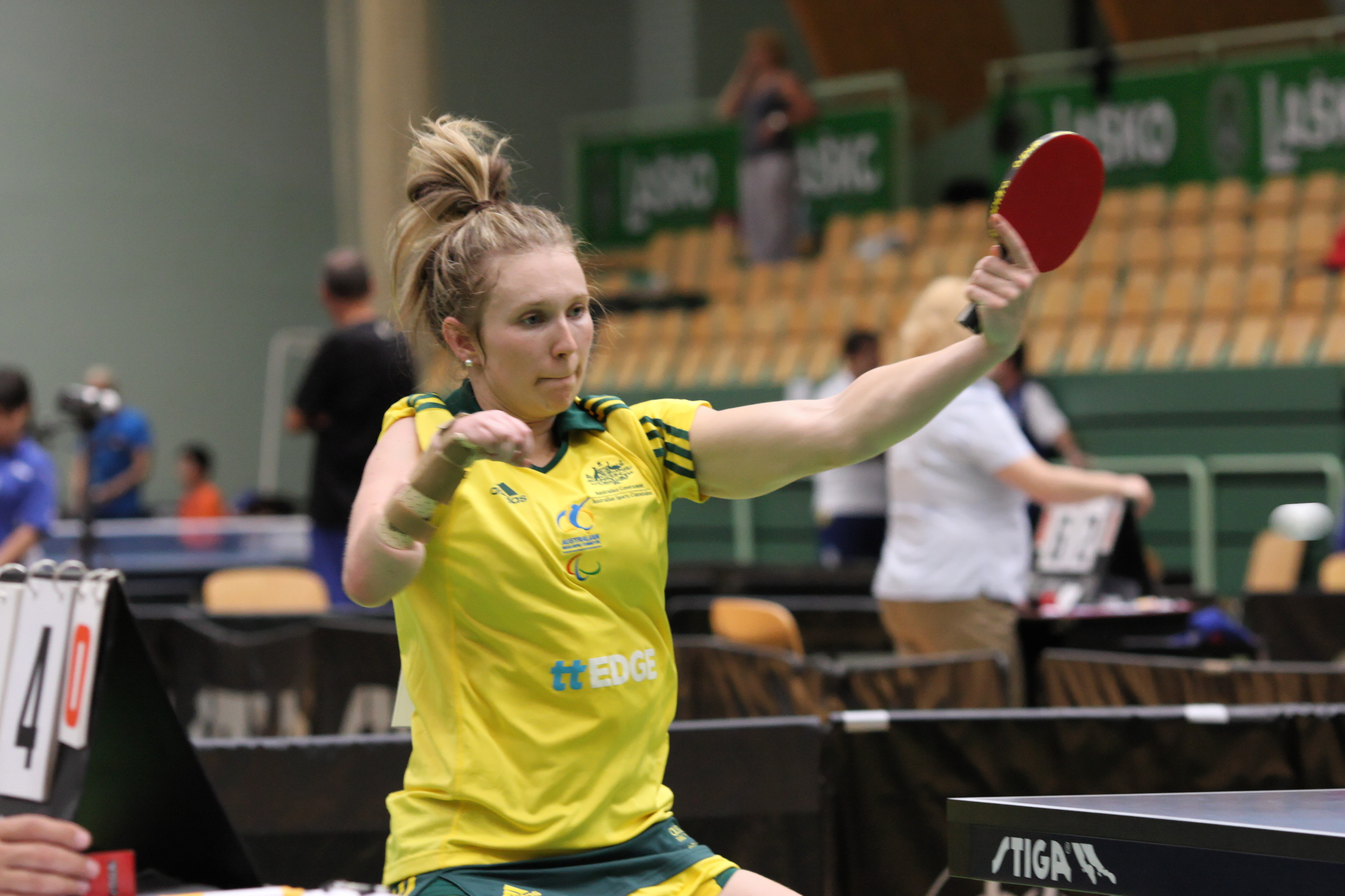 Australian table tennis player Melissa Tapper at the Slovenia Open in 2012